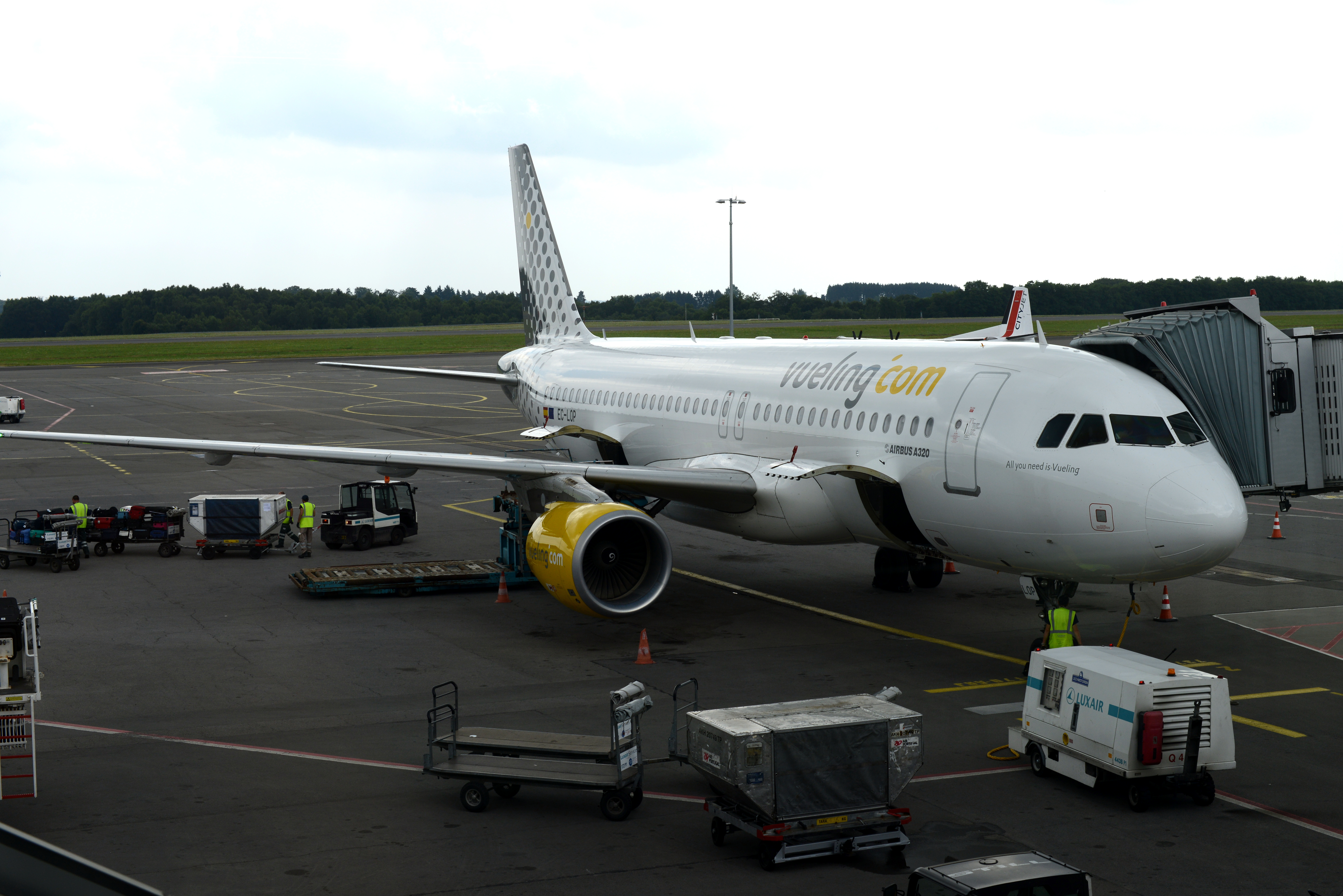 Vueling EC-LOP at Luxembourg Findel Airport.